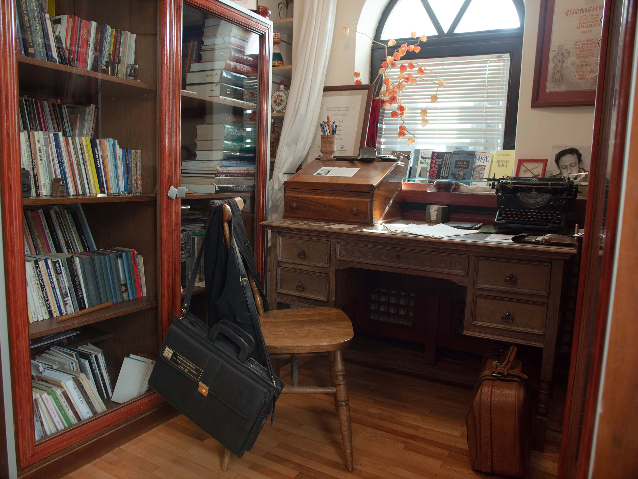 Workspace of Petar Pajic, Serbian poet and prose writer. Part of his memorial room in the Society for Culture, Art and International Cooperation Adligat in Belgrade, Serbia. Српски (ћирилица): Радни простор Петра Пајића са његовим столом и писаћом машином. Део спомен собе у Удружењу за културу, уметност и међународну сарадњу Адлигат у Београду.